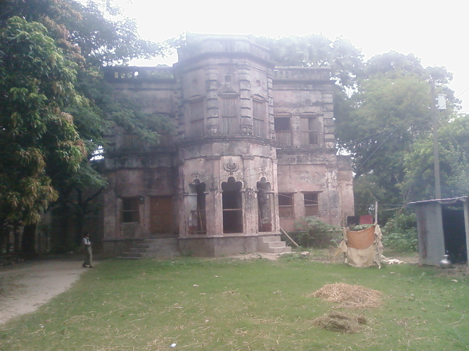 Paternal house of Jyoti Basu